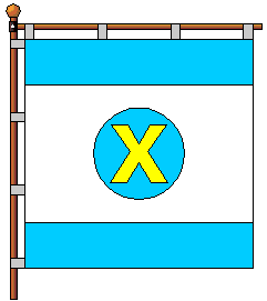 Flag of Khodoriv (Lviv Oblast Ukraine)